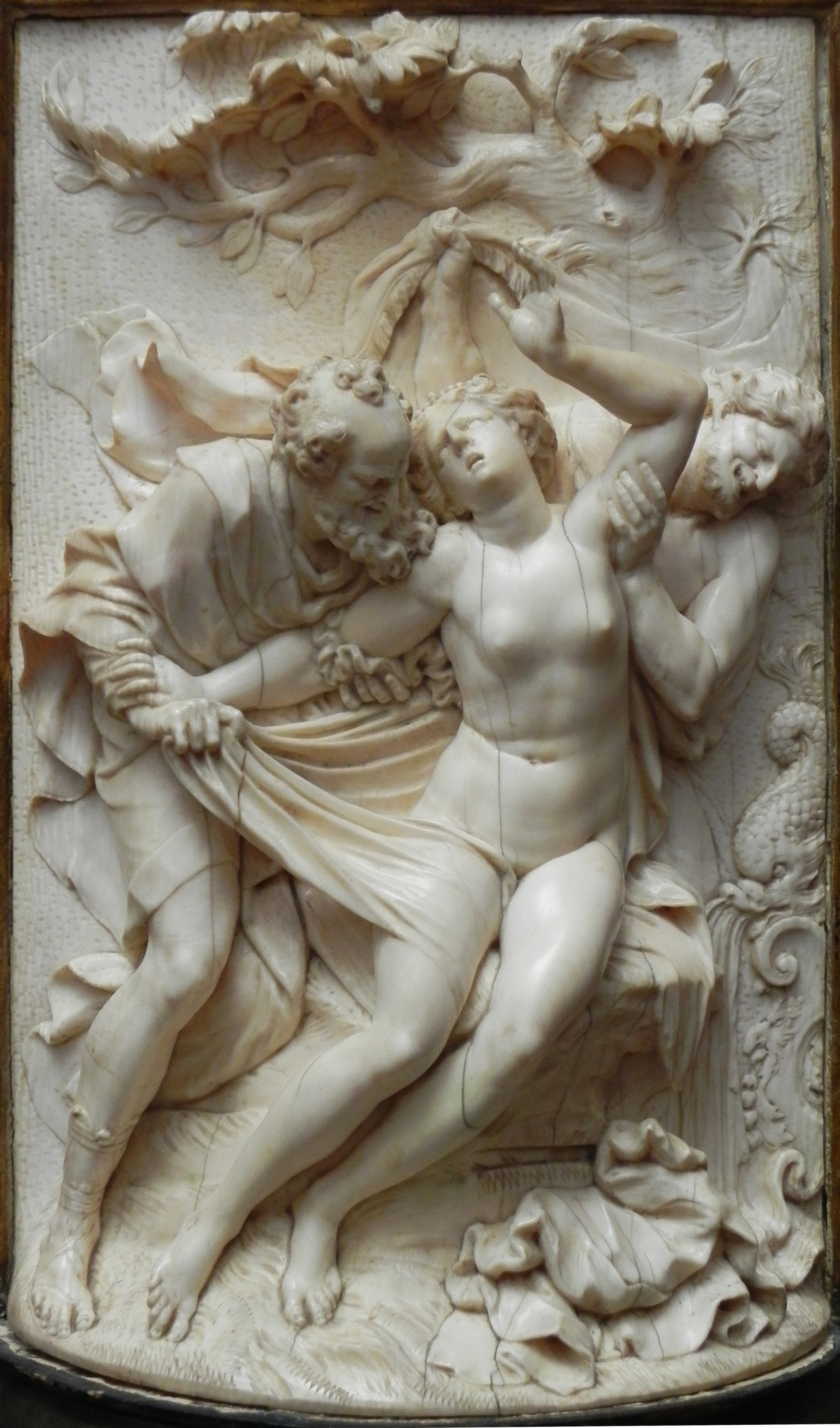 Francis van Bossuit "Susanna and the Elders" ivory sculpture, c. 1690 Getty Center - Los Angeles